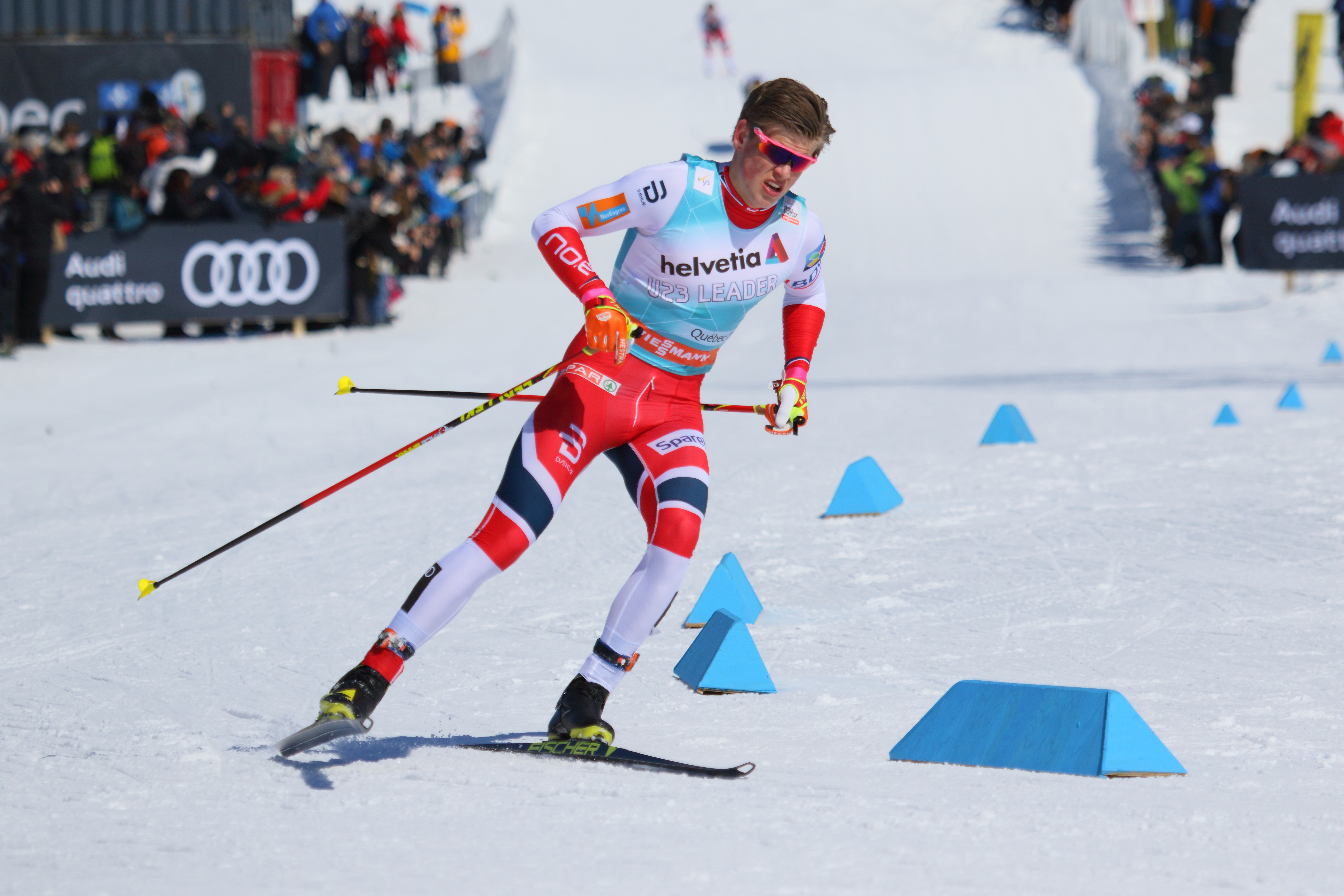 Johannes Høsflot Klæbo, 2017 Ski Tour Canada, Quebec City.